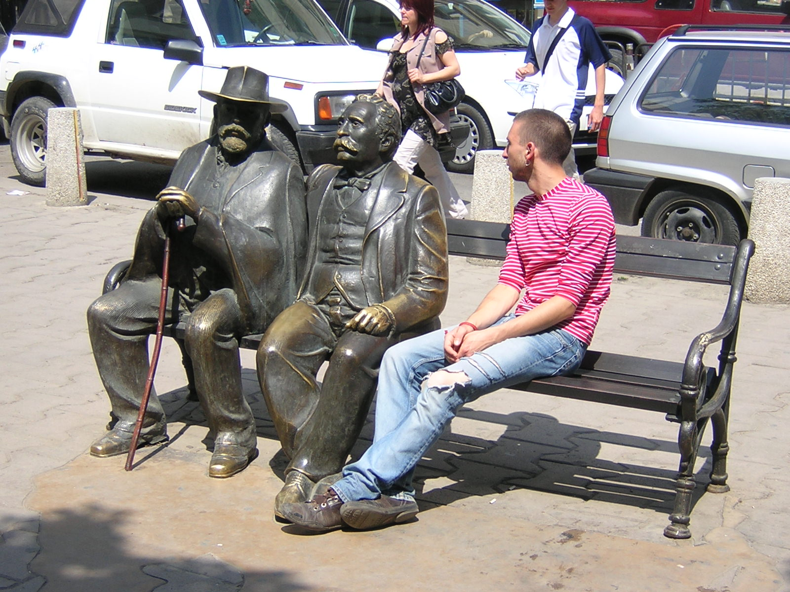 Statue of Petko and Pencho Slaveykov, Sofia, Bulgaria.